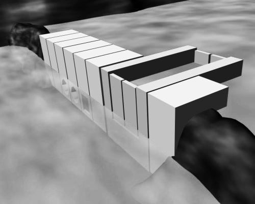 I created this image myself using Blender. An artistic impression of a tidal power barrage. A tidal power barrage is composed of caissons (large concrete blocks), embankments and possibly a ship lock. The caissons house sluices and turbines. See Tidal power.